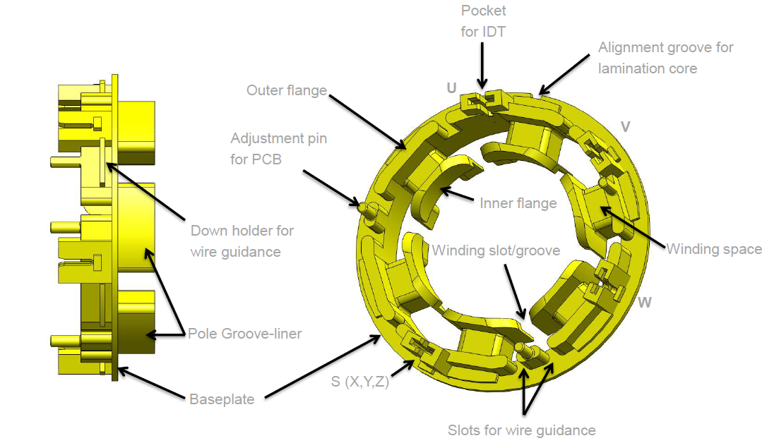 Vollblechschnittstator en